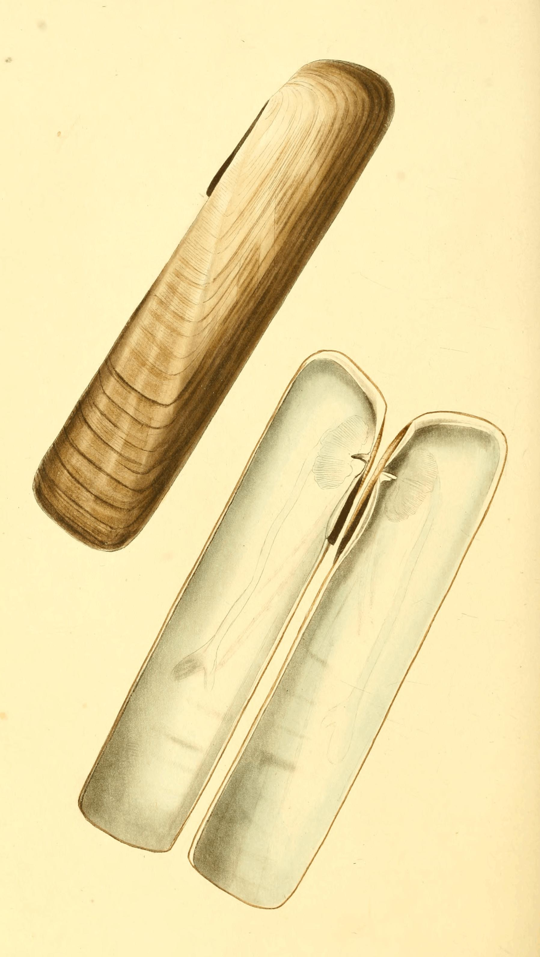 Plate 55. Solen ambiguus. Ambiguous Solen. Synonym of S. obliqua[1].